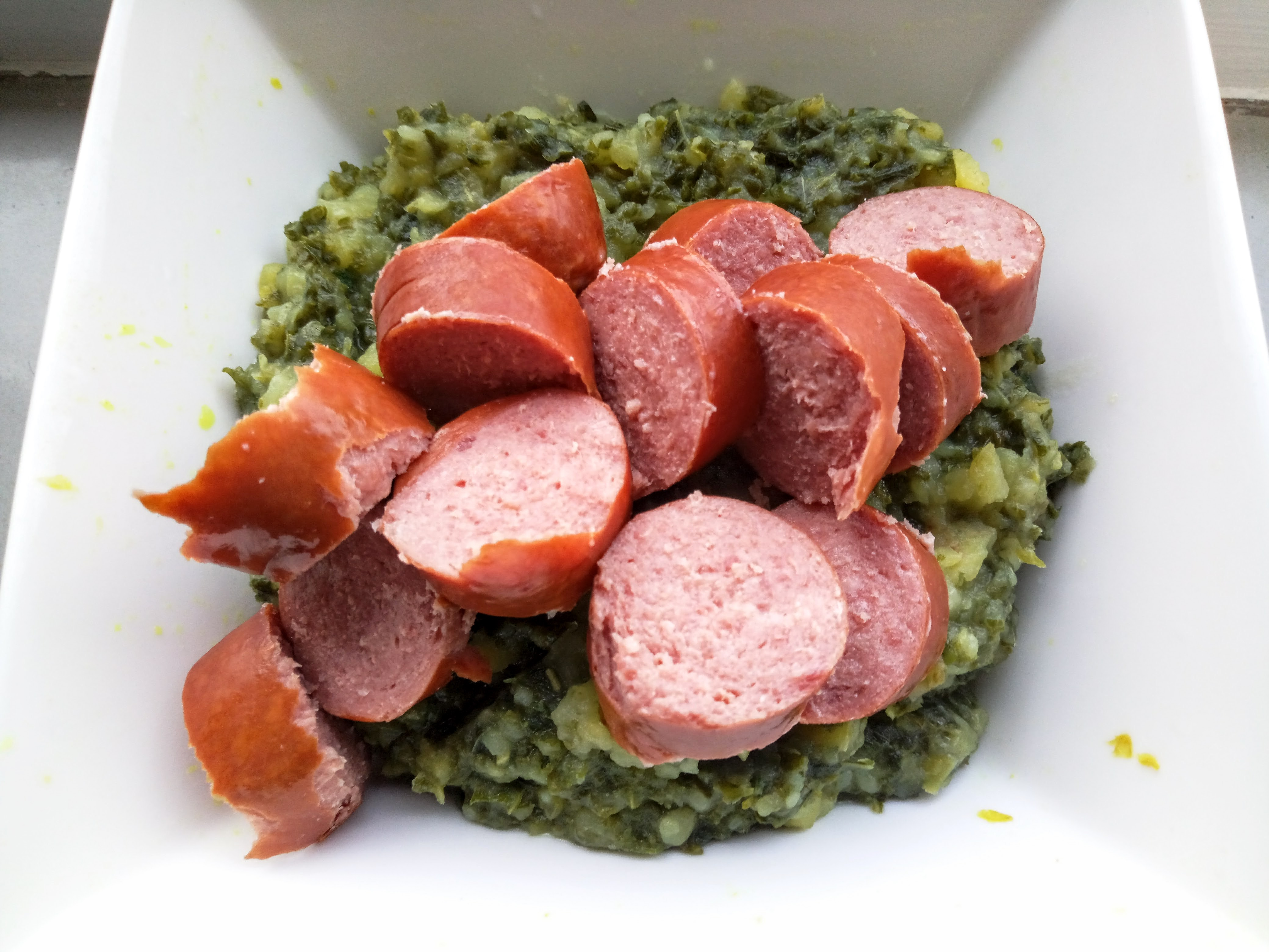 Boerenkool met worst